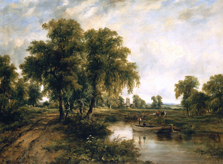 Dedham Vale, Suffolk (oil on canvas)